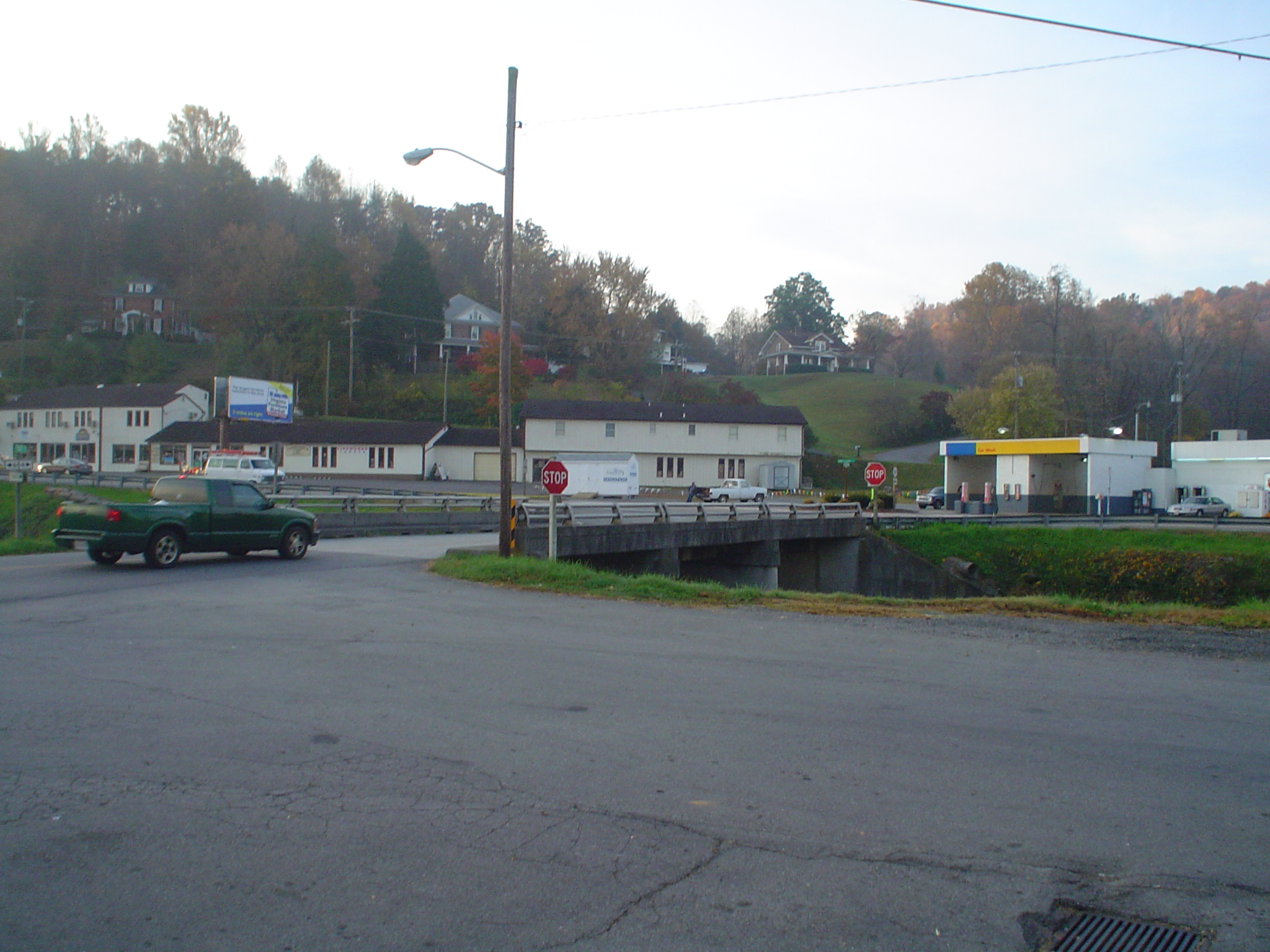 Boones Mill, Virginia.